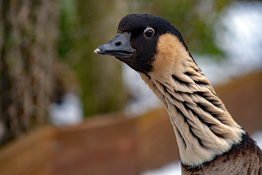 Nene goose at Slimbridge